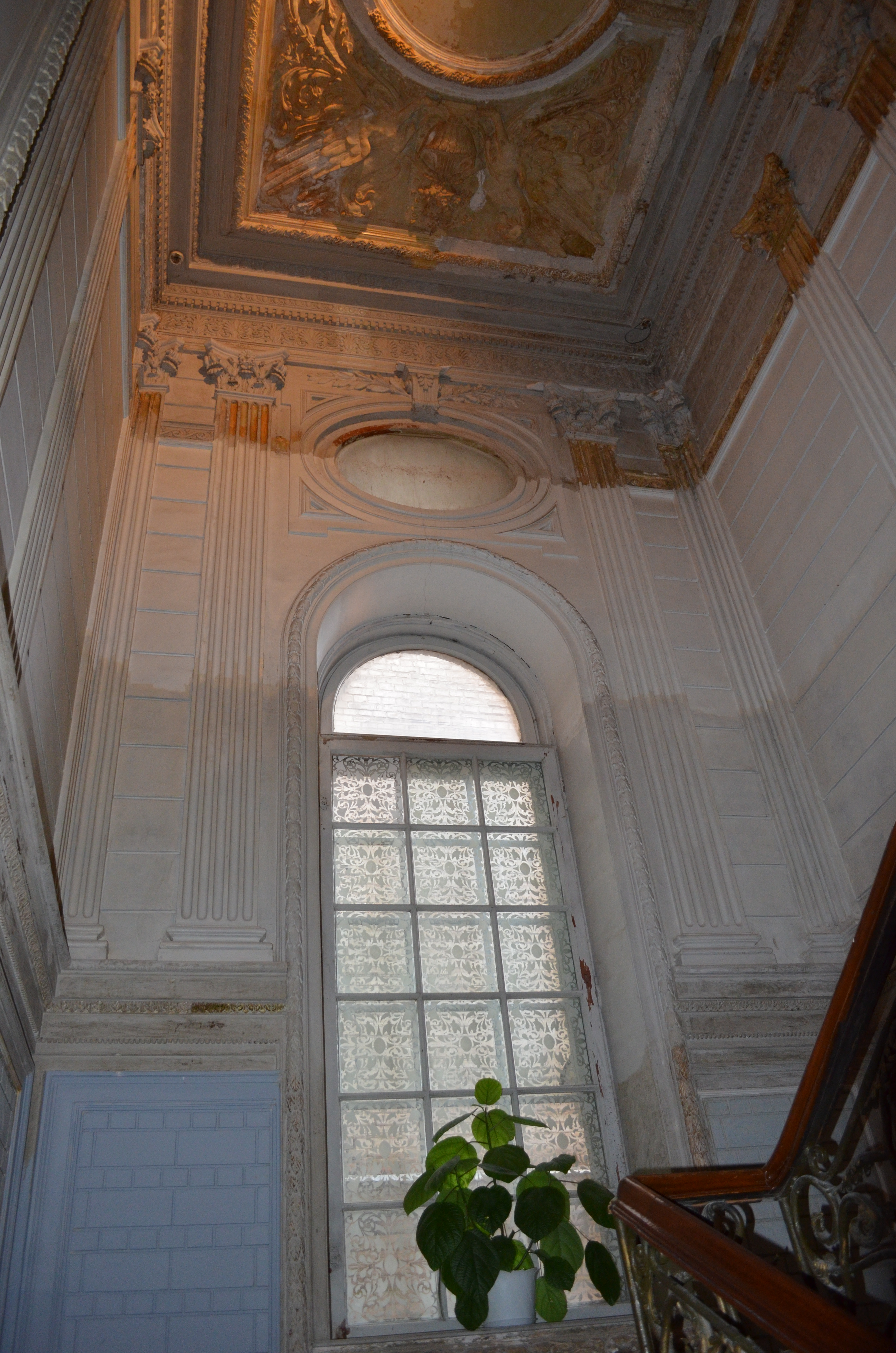 Chocolate House, Kyiv